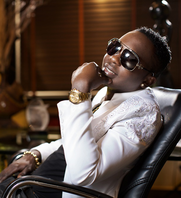 Waconzy studio portrait